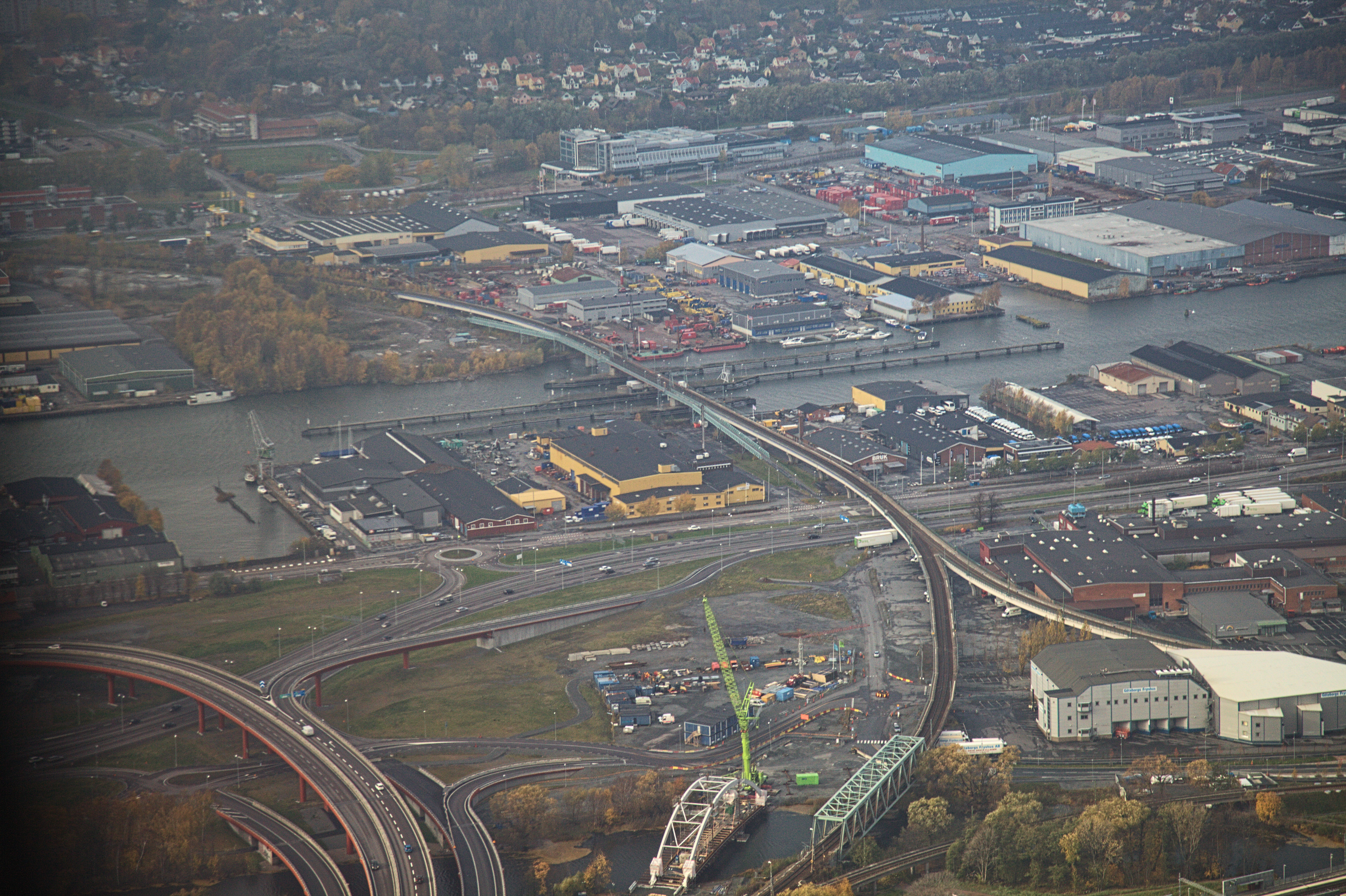 Photo taken on a helicopter over Gothenburg